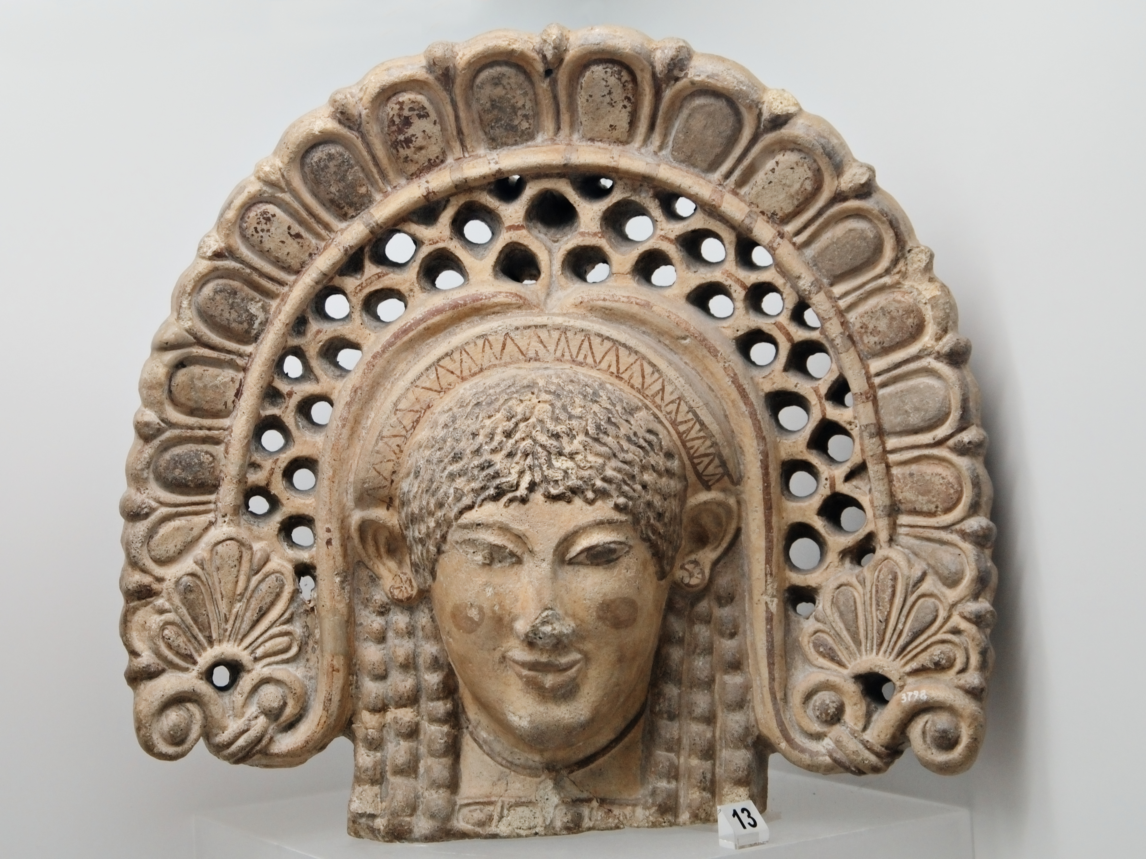 This is a photo of a monument which is part of cultural heritage of Italy.